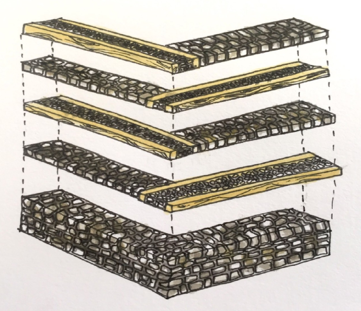 Kath Kuni Construction Technique